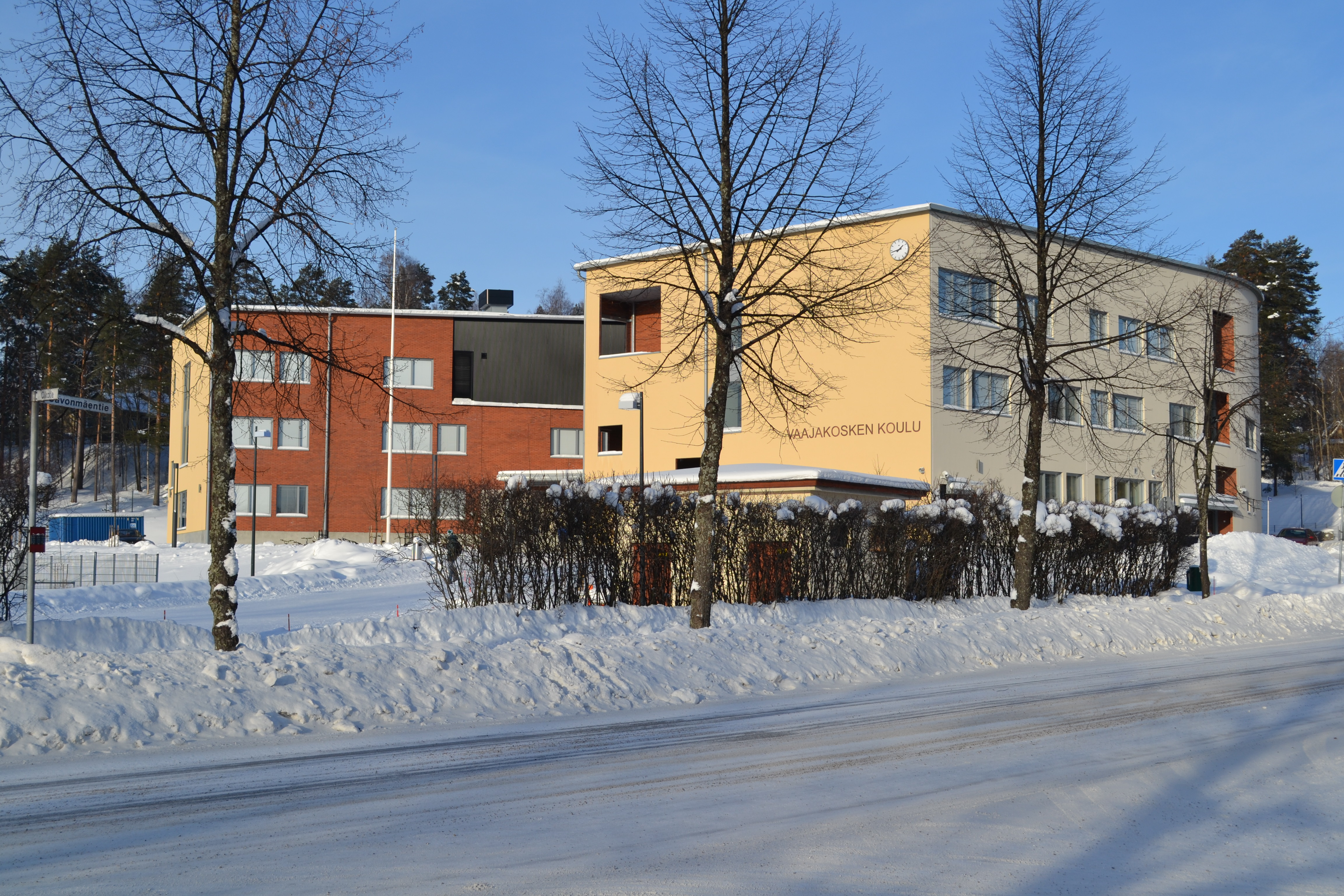 Vaajakoski junior highschool